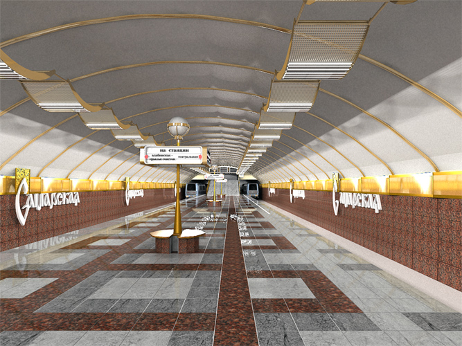 Architectural project of metro station "Samarskaya" in Samara executed by Koryakina Polina Yuryevna, architect "VTS_project". Initially this project was elaborated in the 80s of the 20th century by reknown Russian architects Morgun Galina Vasilyevna and Morgun Aleksey Grigoryevich